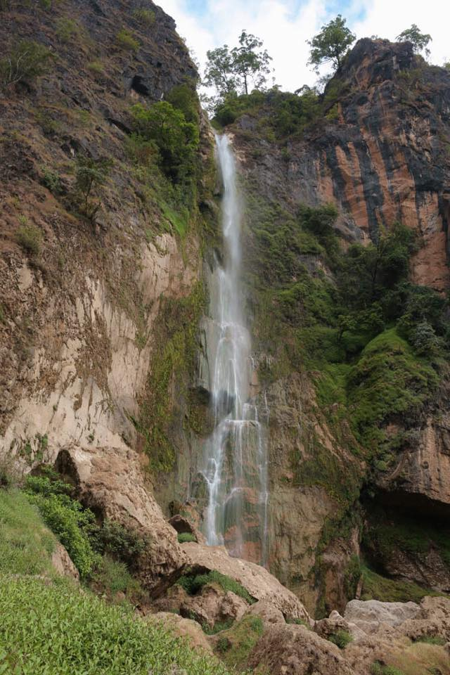 Mota Bandeira, waterfalls in Atsabe